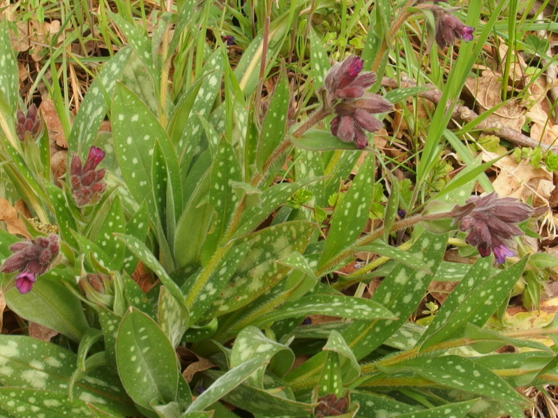 Pulmonaria Longifolia in Quercus robur plantation. March